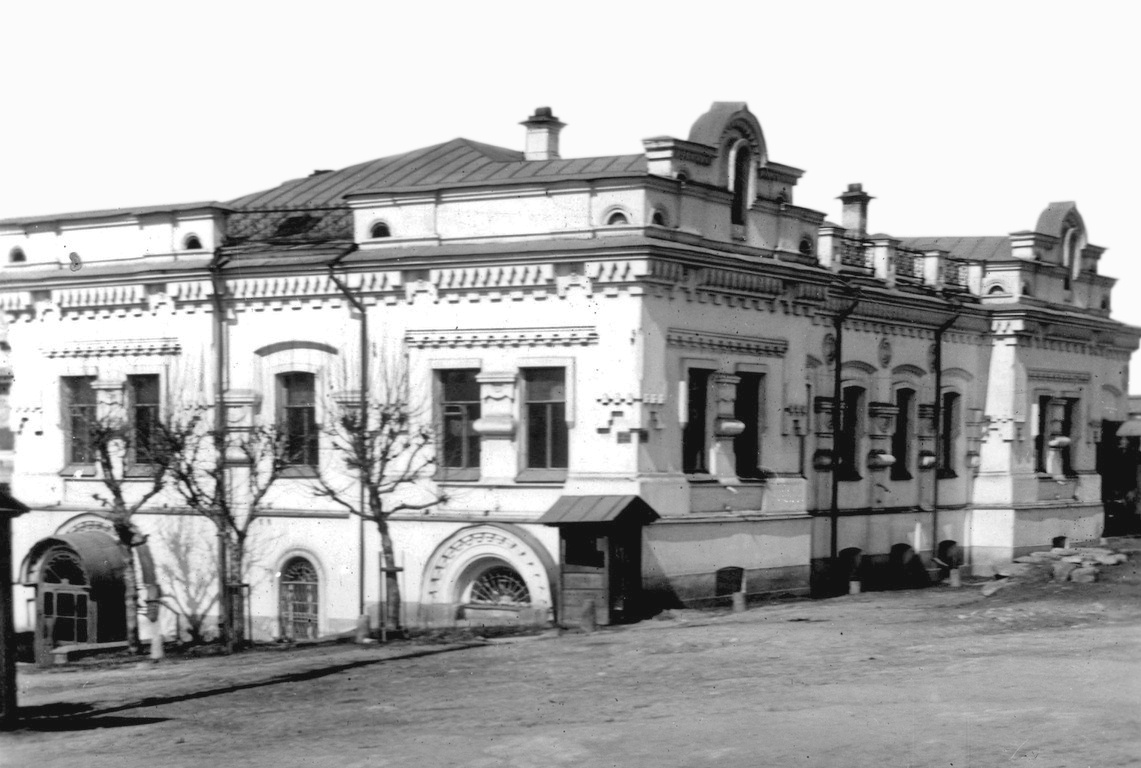 Ipatiev House